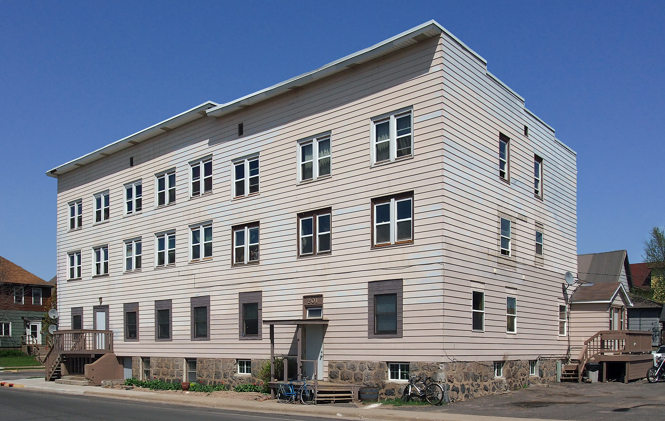 Jukola Boardinghouse, 201 N. 3rd Avenue, Virginia, Minnesota, USA. Viewed from the southwest.